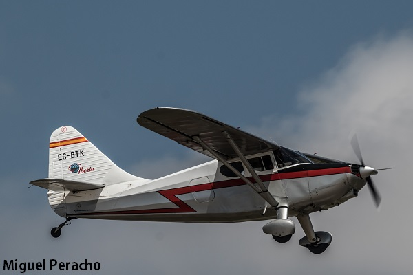 Stinson 108 EC-BTK